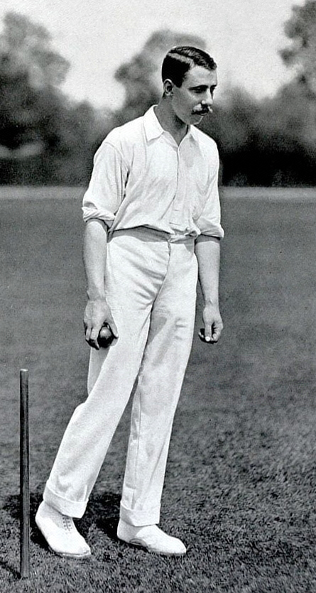 Sport, Cricket, Circa 1900, Walter Morris Bradley, Kent, (1895-1903) and England, (1899), He had 2 great seasons with the ball taking 156 wickets in 1899